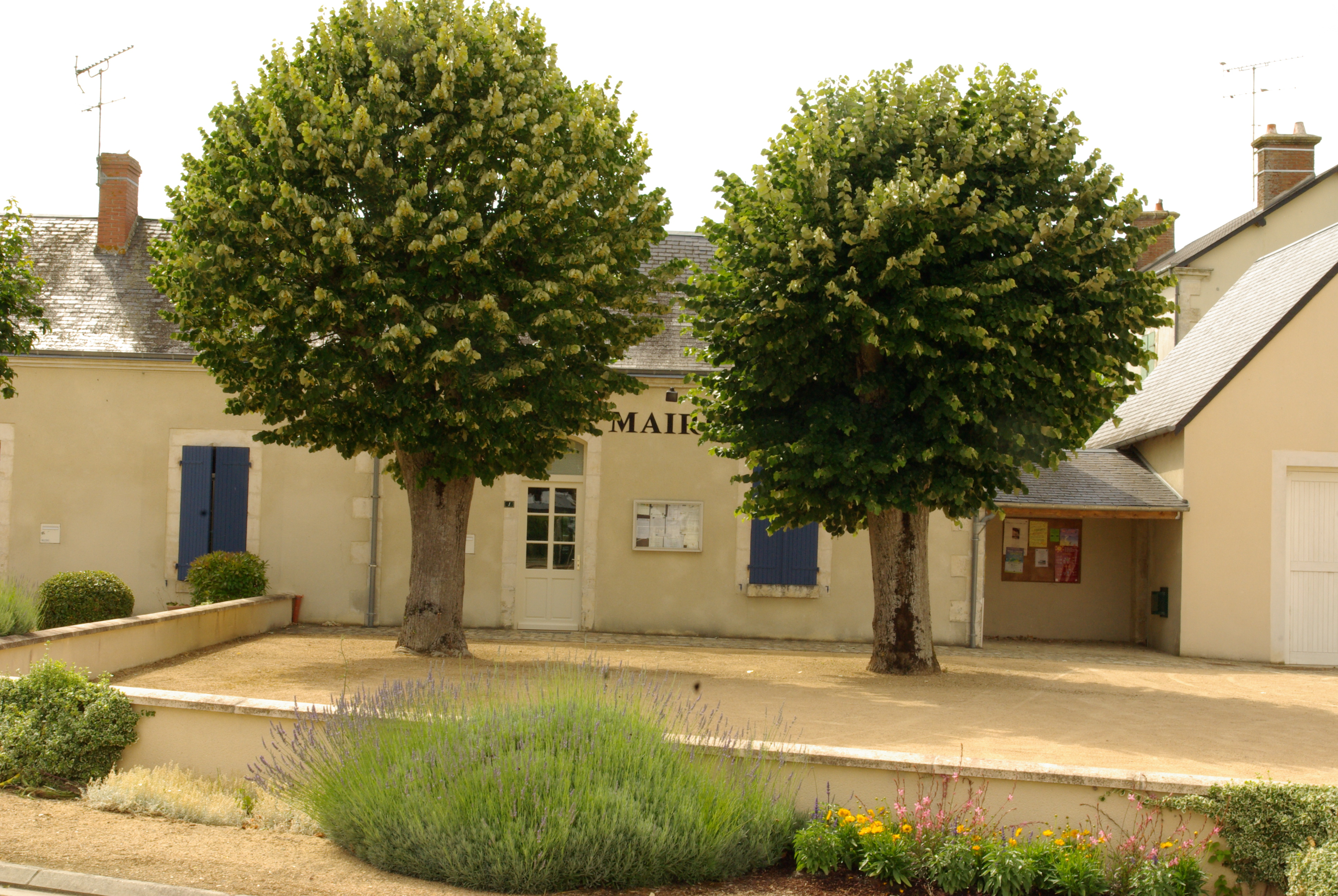 City Hall Lizeray